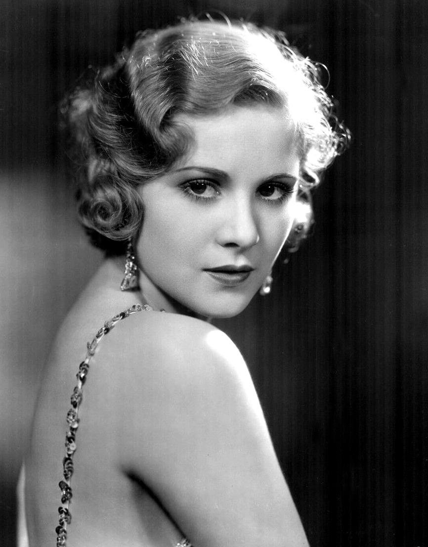 Publicity photo of Boots Mallory